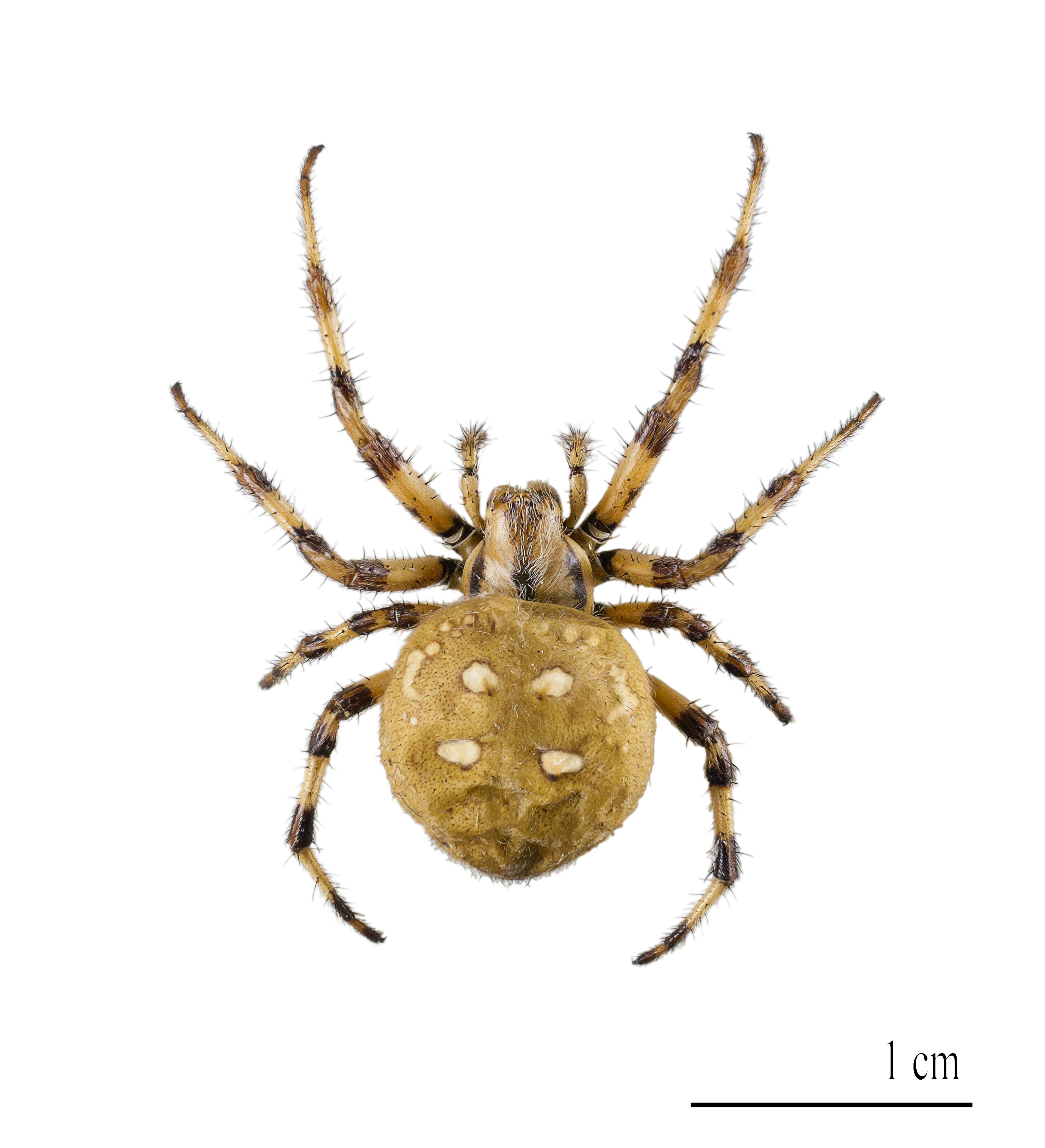 female - Dorsal side Locality: Aulus-les-Bains Ariège, France